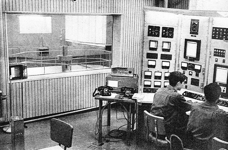 Japan Research Reactor No.1